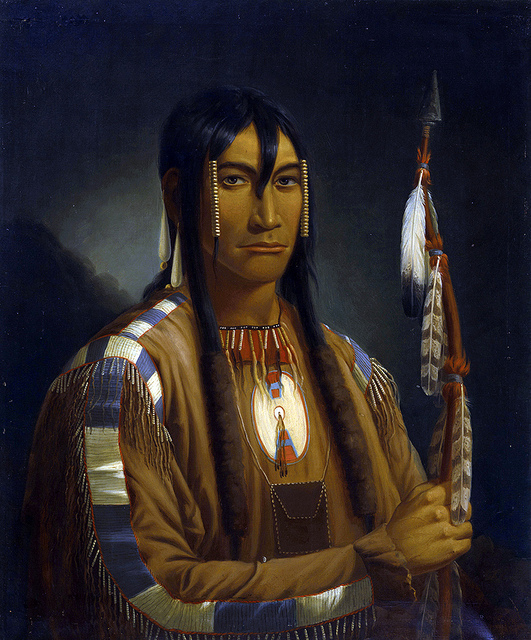 A Plains Cree warrior and pipe stem carrier. Painted by Paul Kane at the Fort Pitt region, North Saskatchewan River, Saskatchewan, Canada.